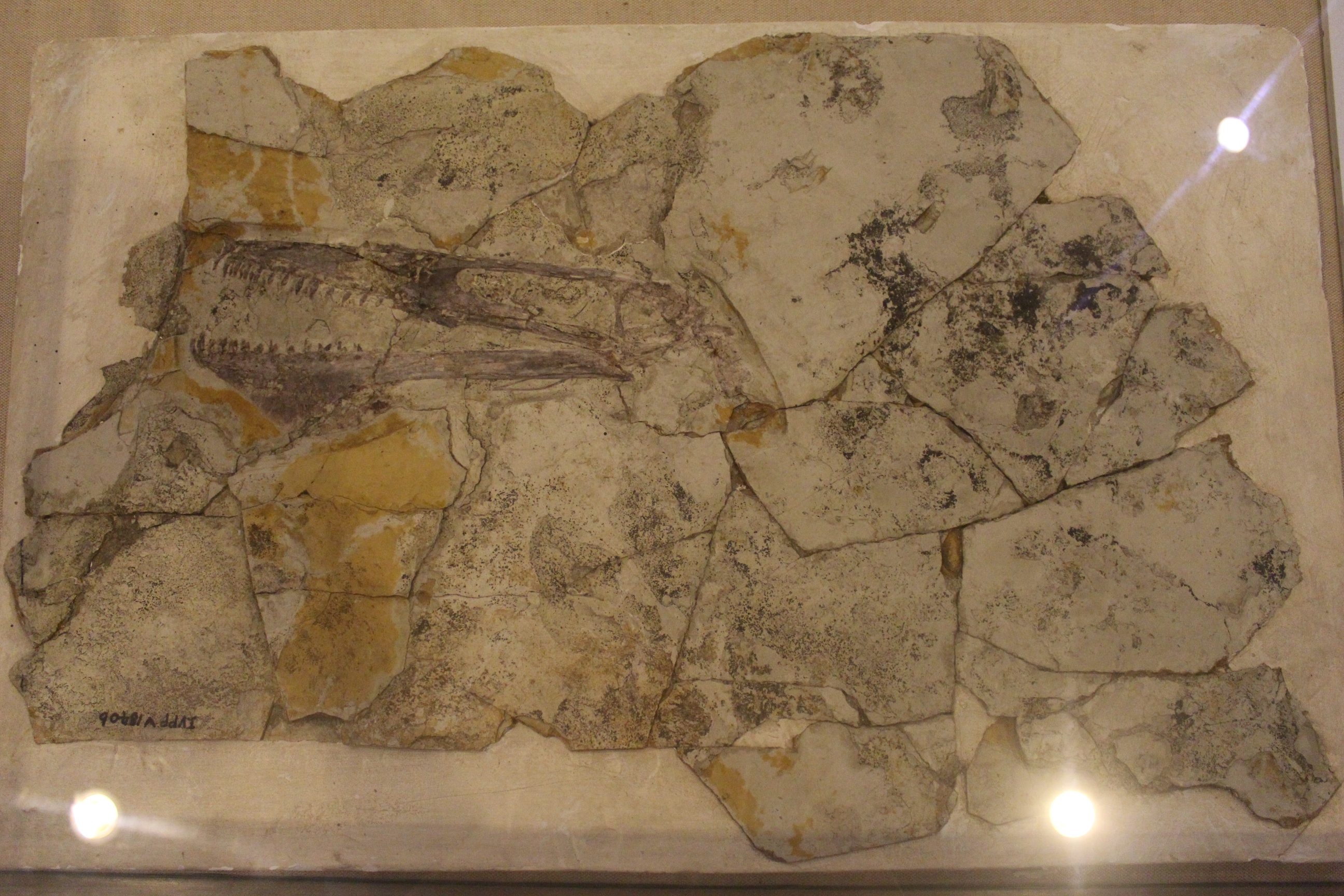 Ikrandraco avatar skull and neck (IVPP 18406) on display at the Paleozoological Museum of China.